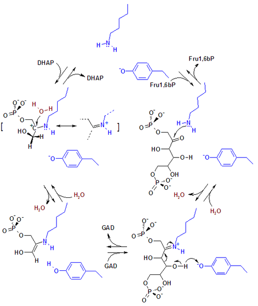 The reaction mechanism of ALDOs